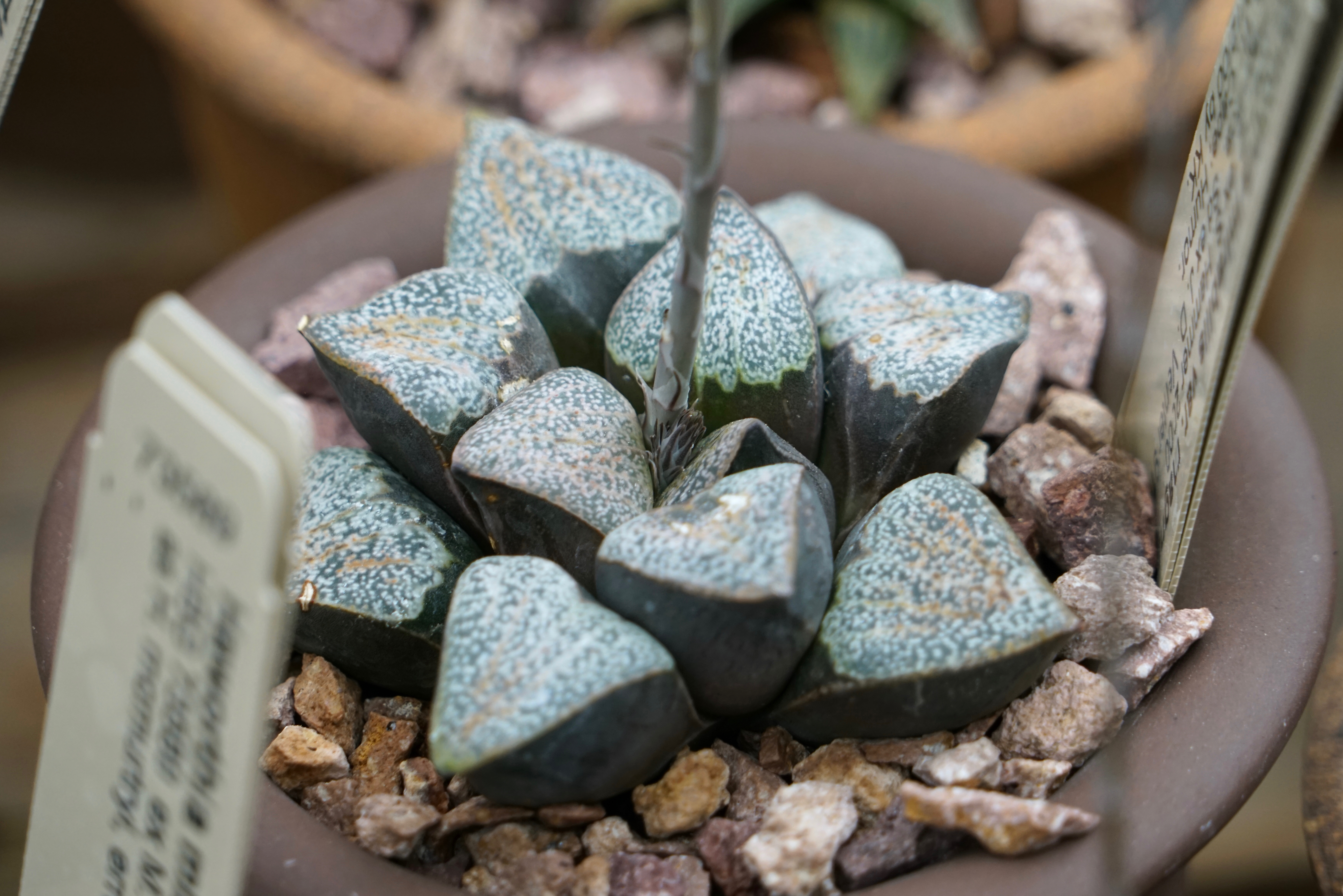 specimen in the Huntington Library (CA, US)